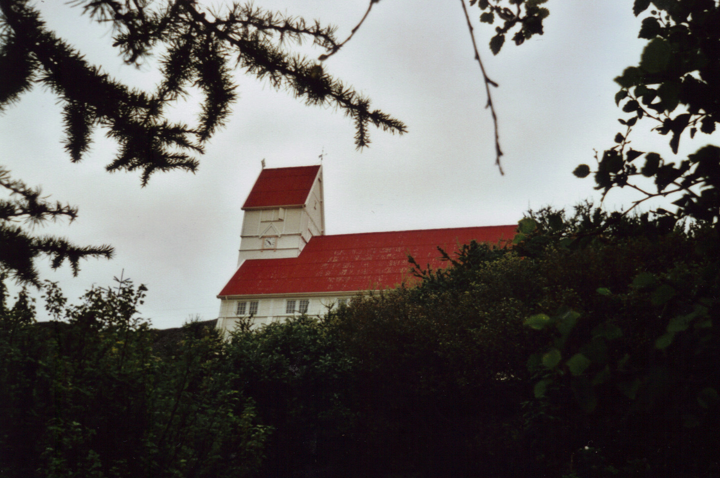 Tvøroyri Church, Faroe Islands